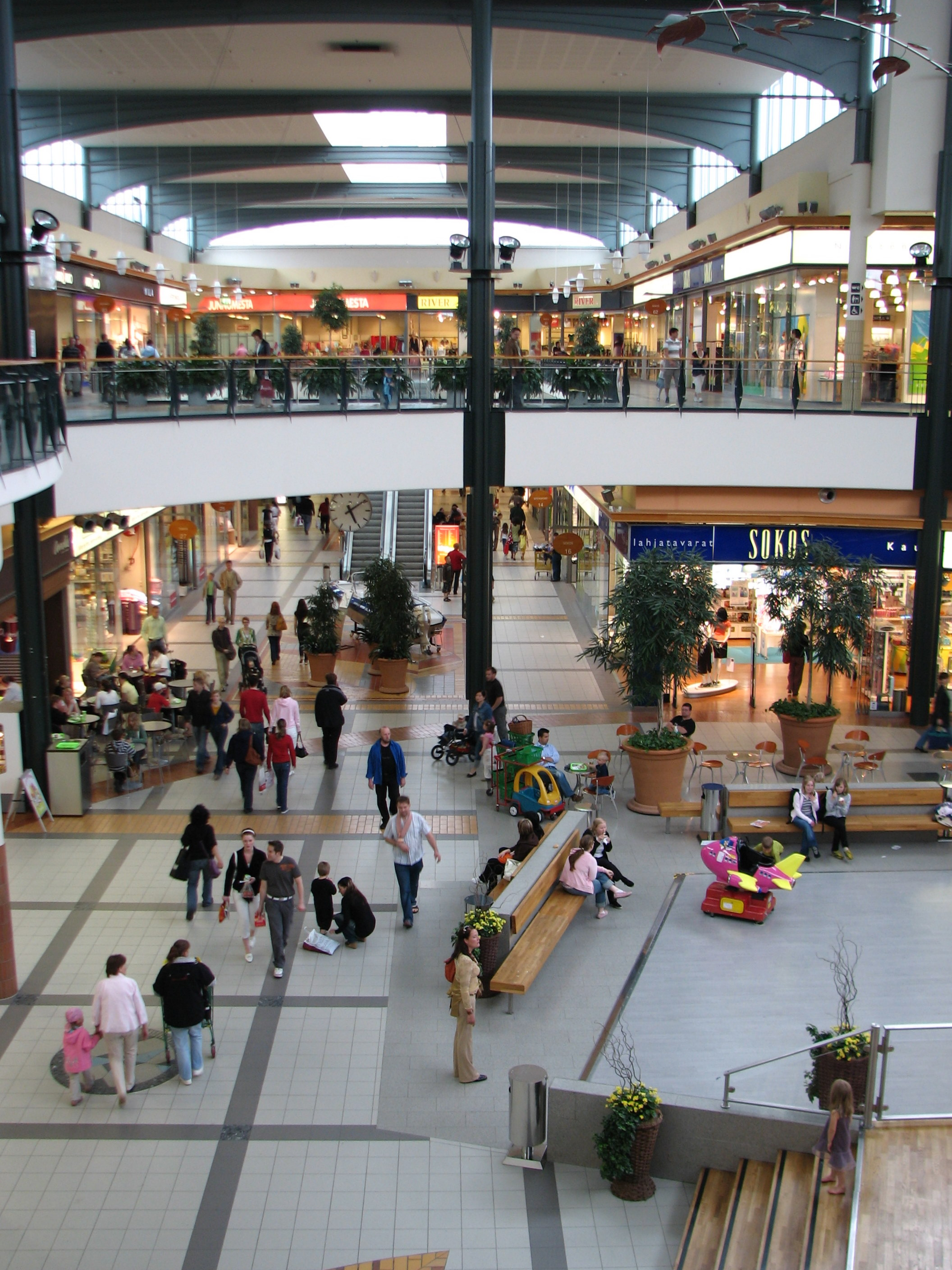 Myllyn tori (Mill's Square) in Mylly shopping mall, Raisio, Finland